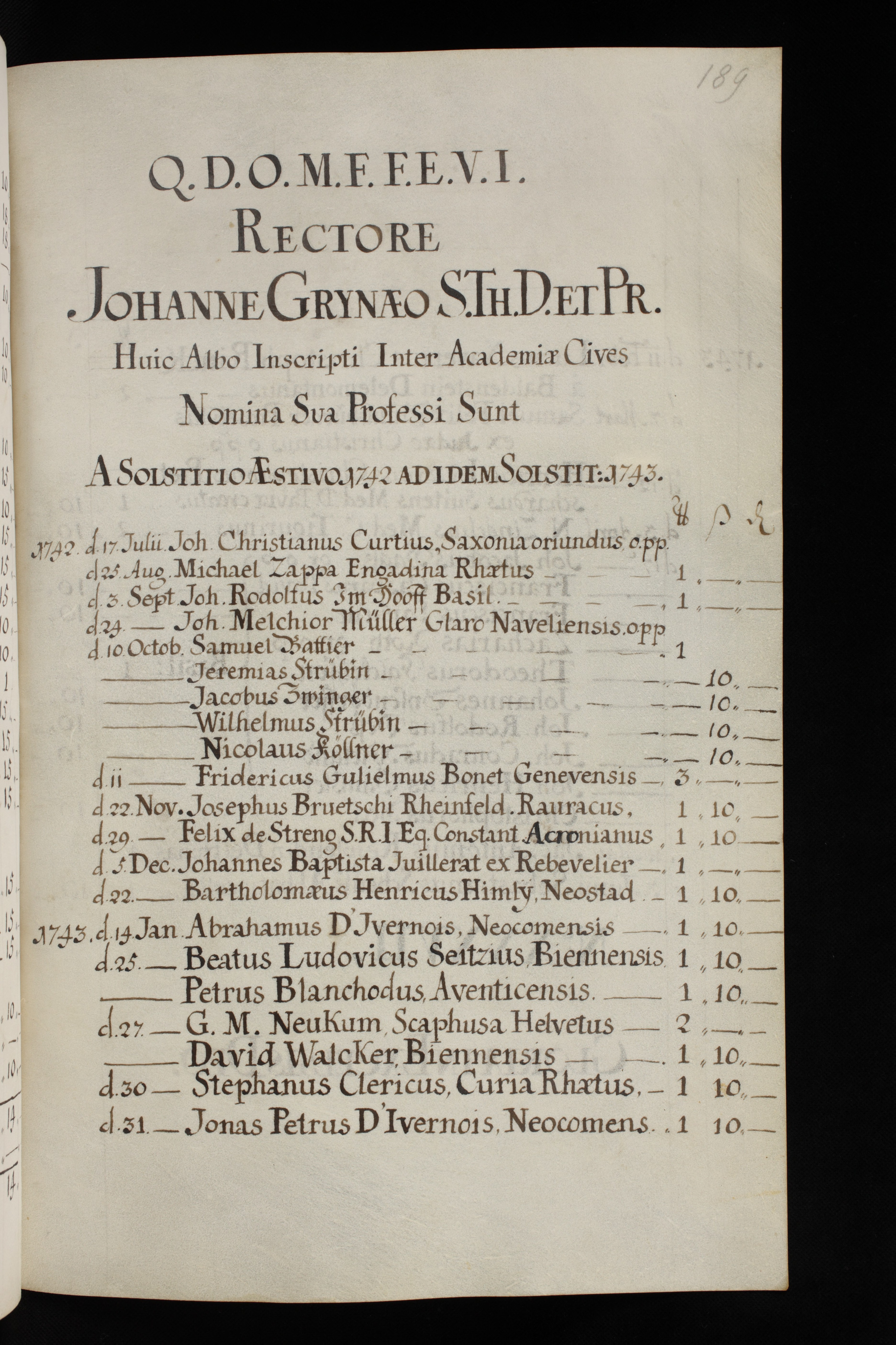 Matriculation Register of the Rectorate of the University of Basel, rectorship of Johannes Grynaeus 1742/1743